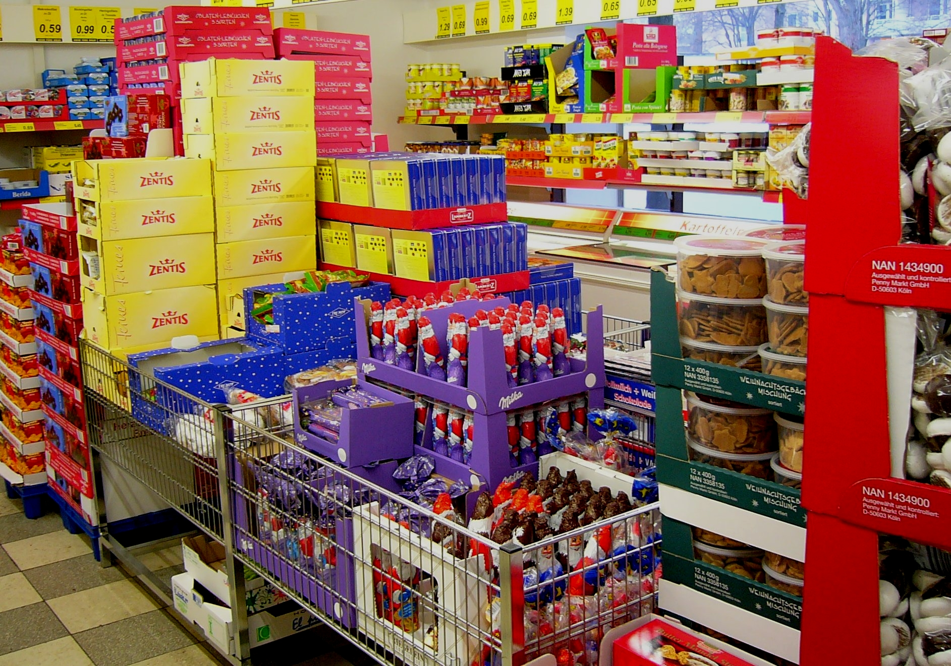 Christmas candy at a supermarket